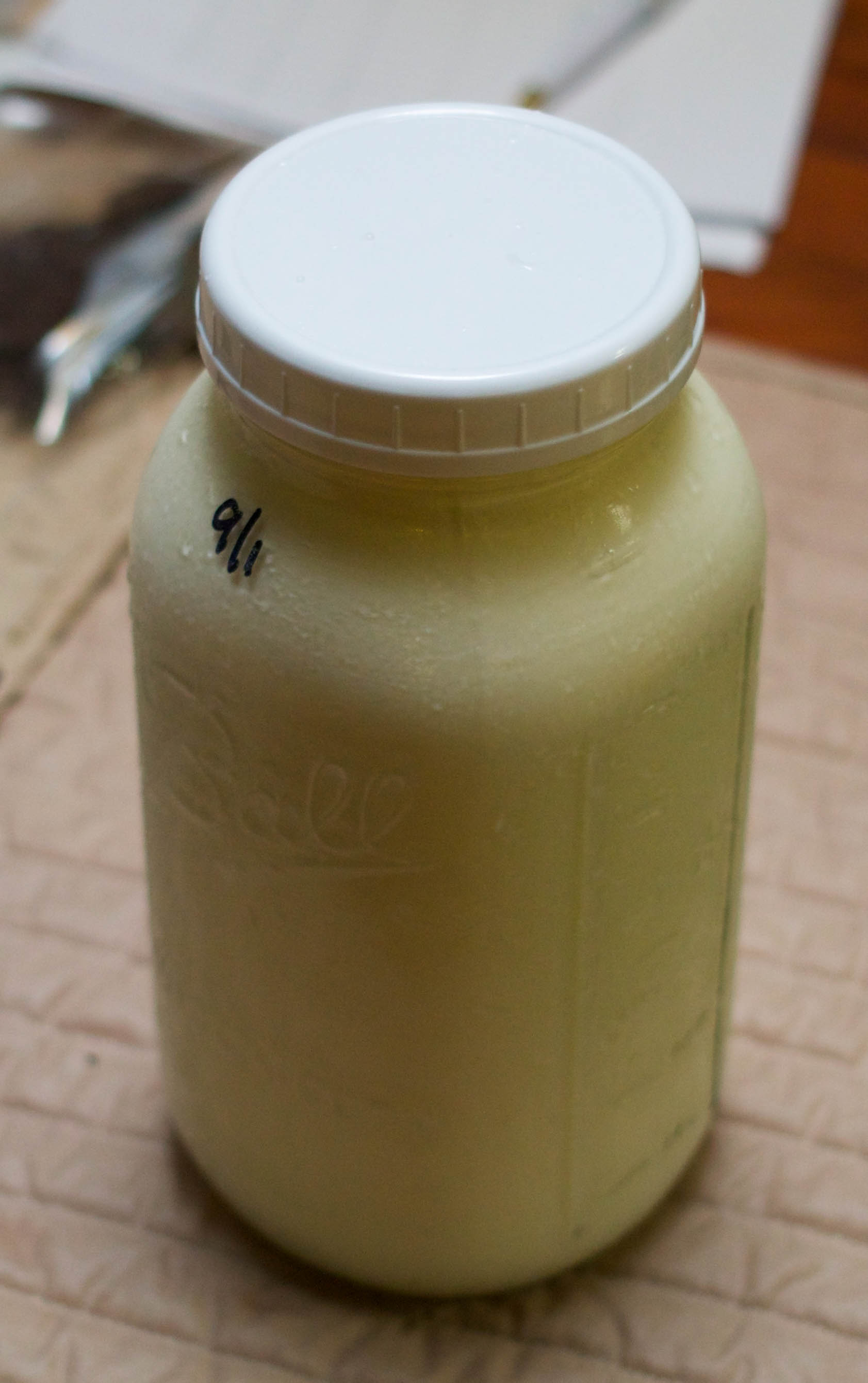 My first taste of raw milk. Creamy and delicious. // LWYang Flickr album of Mr.Vernon, MO